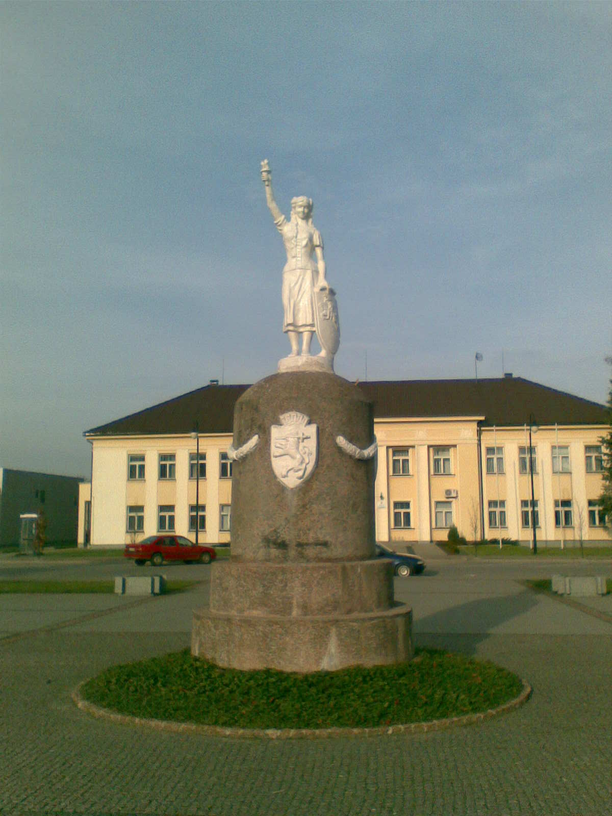 Statue in city square.